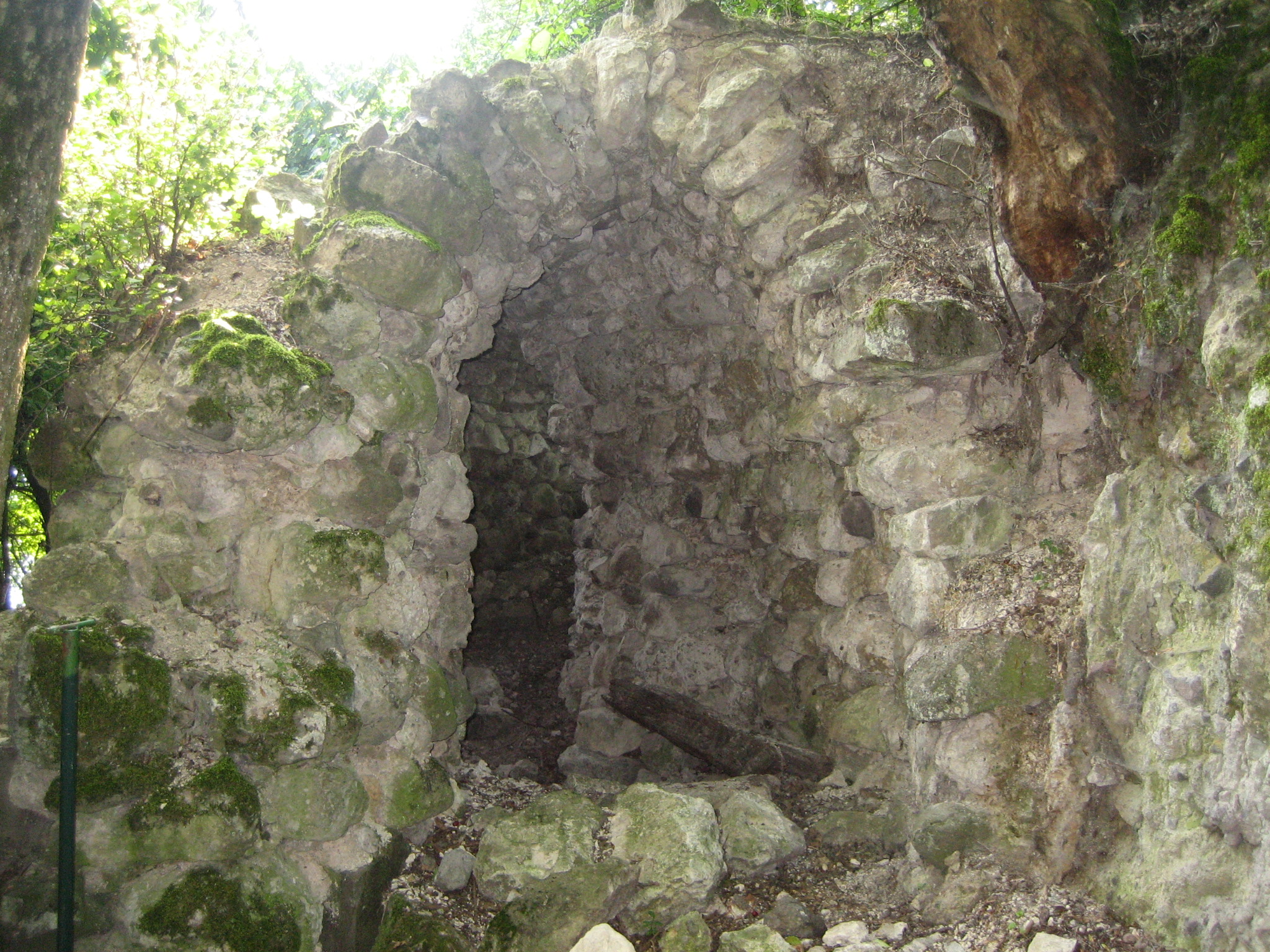 ruins of Balogvár Balogvár romja Vámosbalog (szlovákul Vel'ký Blh) község felett